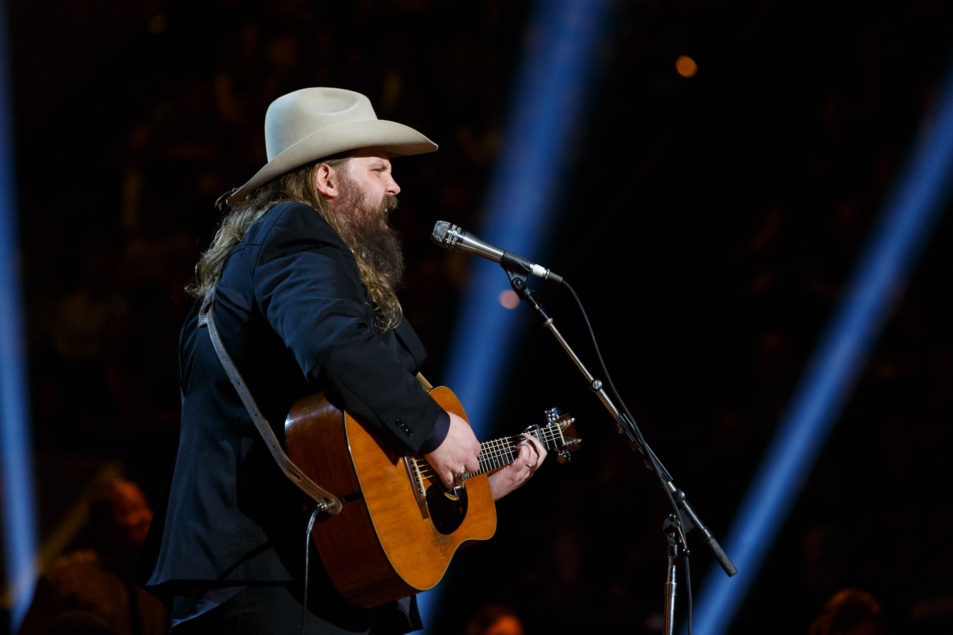 Chris Stapleton performs selections of Garth Brooks' work, including "Shameless" and "Rodeo" at the 2020 Library of Congress Gershwin Prize for Popular Song concert honoring Brooks at DAR Constitution Hall in Washington, D.C., March 4, 2020. Photo by Shawn Miller/Library of Congress. Note: Privacy and publicity rights for individuals depicted may apply.